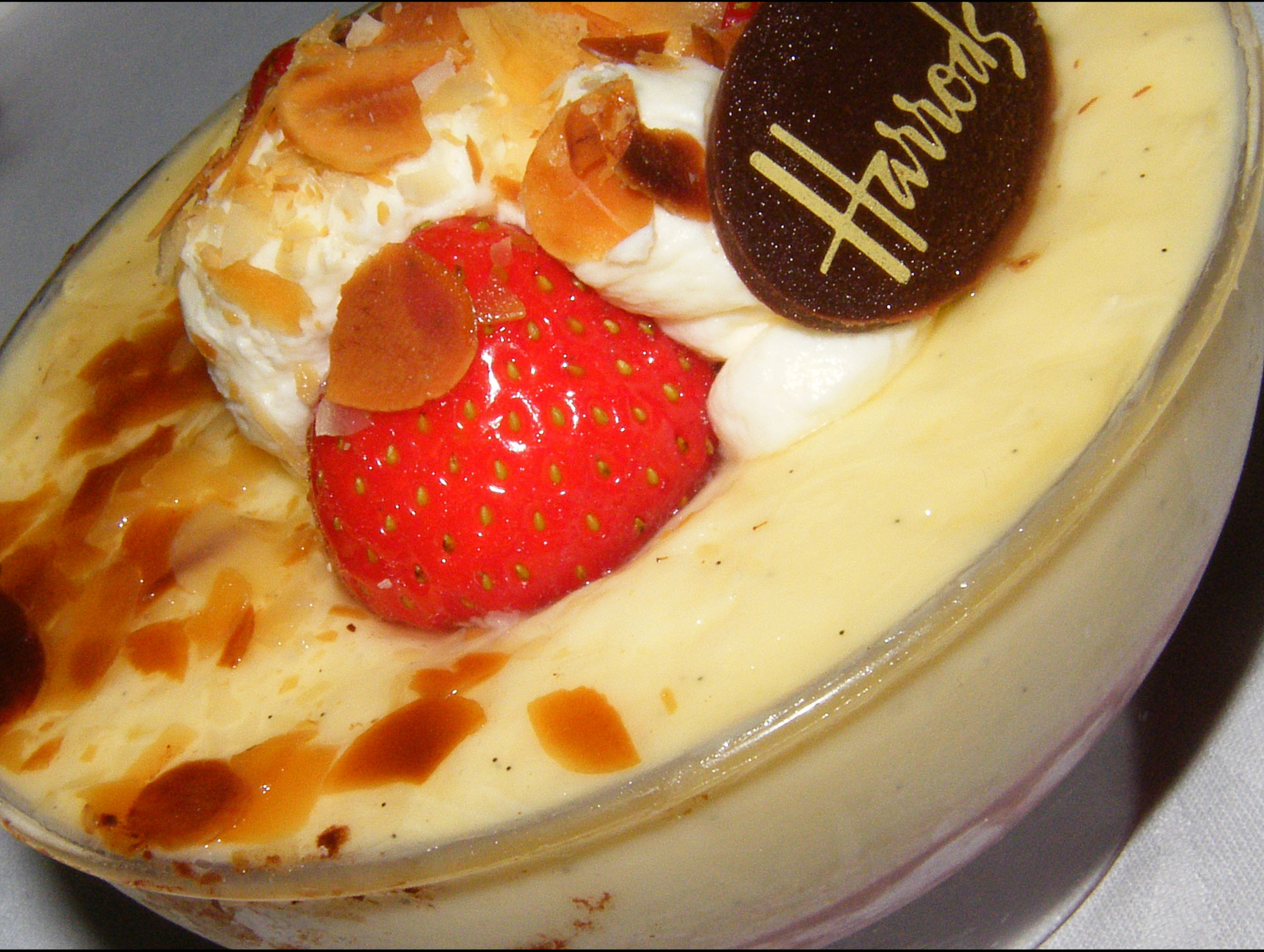 A knickerbocker glory is an ice cream sundae from the United Kingdom, It was first described in the 1930s and contains ice cream, jelly, and cream. Layers of these different sweet tastes are alternated and topped with different kinds of syrup, nuts, whipped cream and often a cherry. Layers of meringue, fruit and even alcohol may be included but, as with an ice cream sundae, there is no precise recipe. This photo is of Harrod's version. I'm afraid someone has got mixed up here. This photo is definitively NOT of a knickerbocker glory - it is some other sort of, rather yummy, desert.